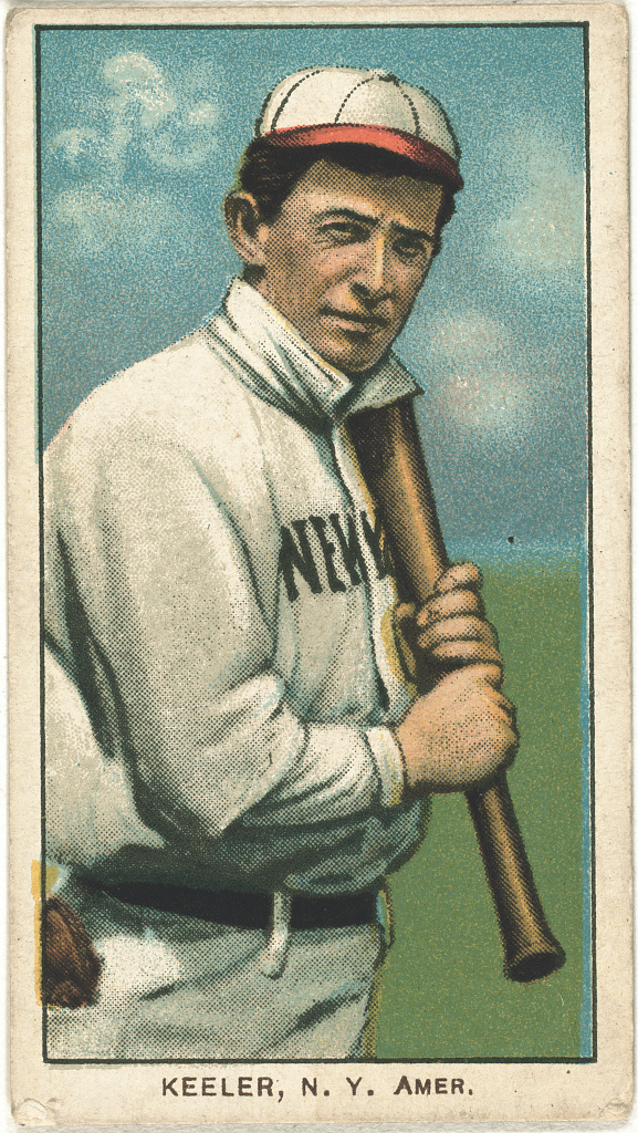 Title: Willie Keeler, New York Highlanders, baseball card portrait Abstract/medium: 1 print : relief with halftone, color.